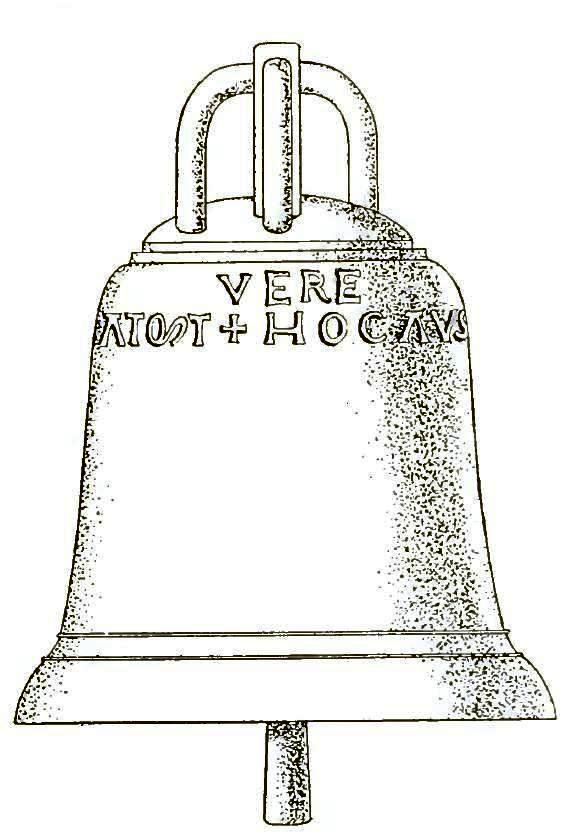 Twelfth-century bell at Smollerup, Denmark